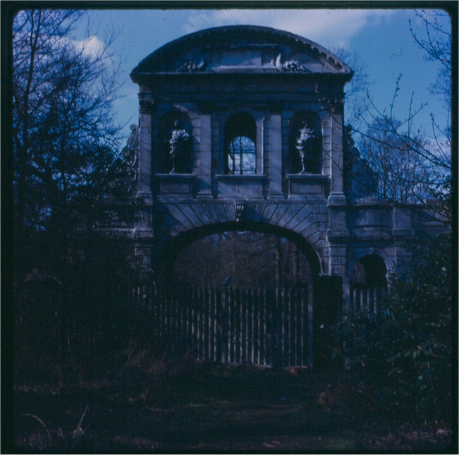 Temple Bar in Theobalds Park, Cheshunt, Herts Easter 1968